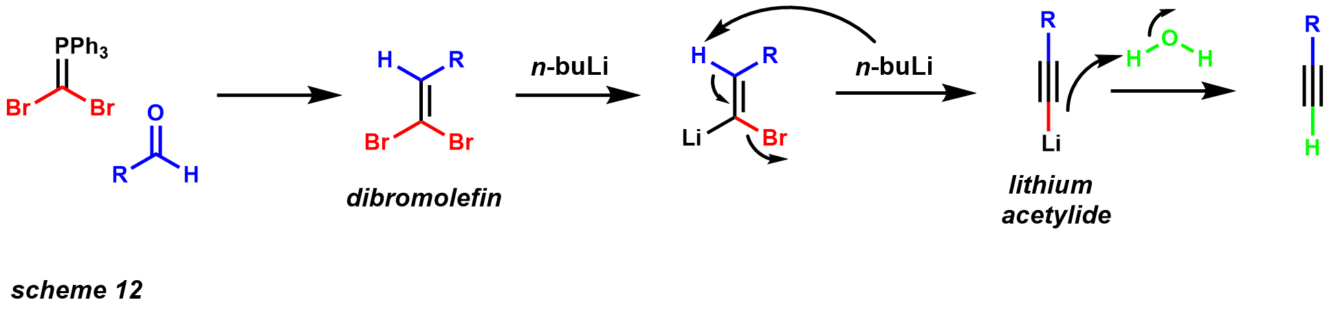 corey-fuch mechanism